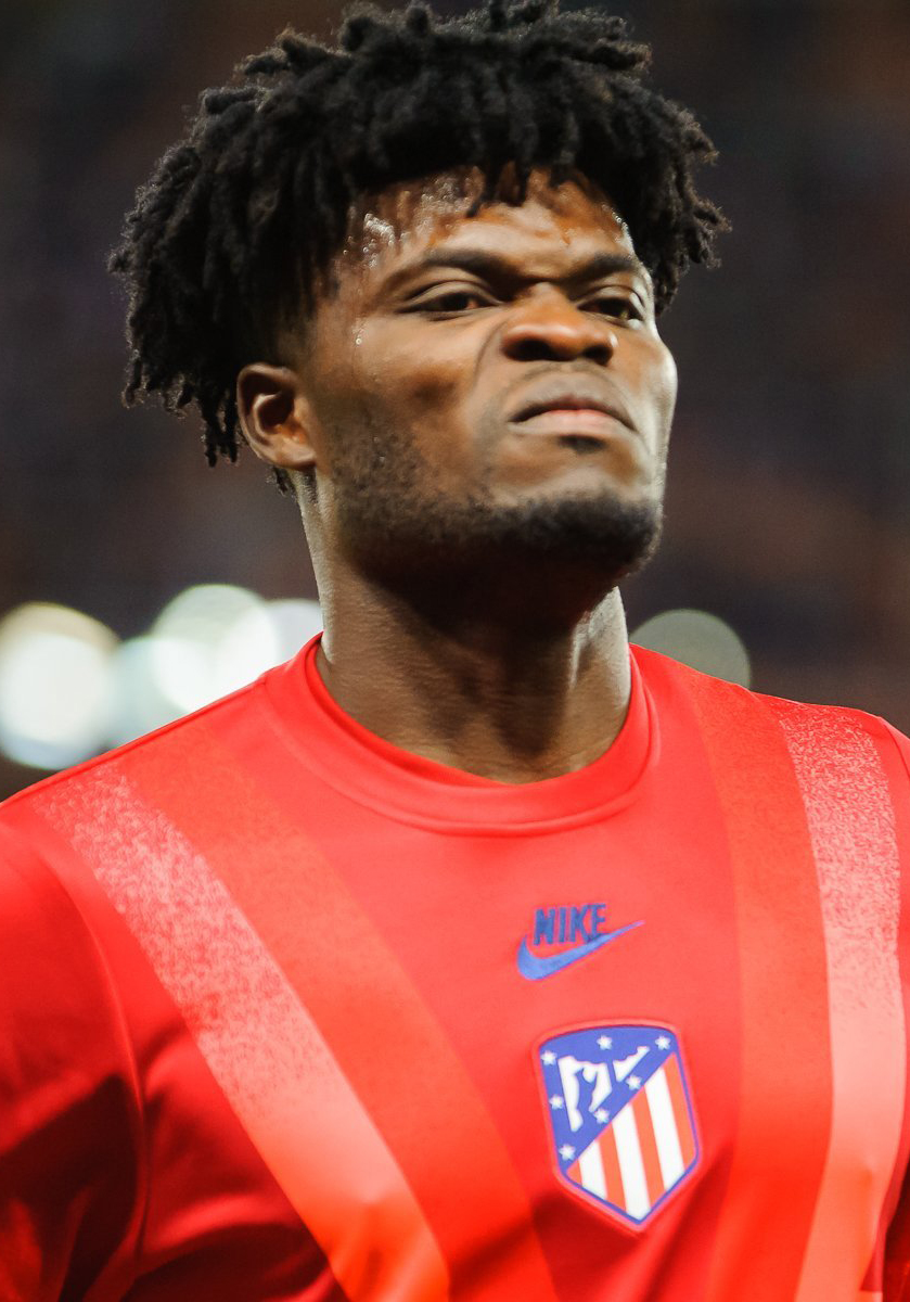 Ghanaian footballer Thomas Partey on 1 October 2019, before the UEFA Champions League match between Atlético Madrid and Lokomotiv in Moscow.